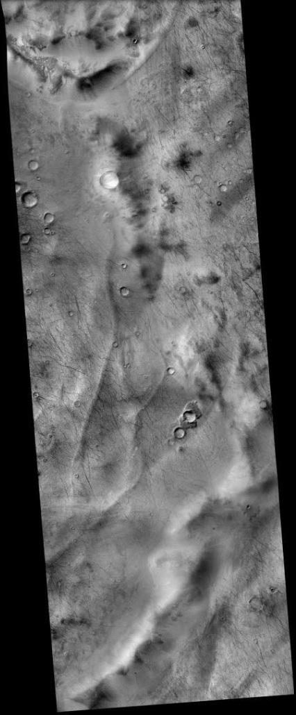 Lau Crater, as seen by ctx